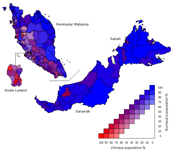 Map of Bumiputra and Chinese registered voters according to 2008 electoral district. This can be taken as a close approximation to the actual ethnic distribution in Malaysia.